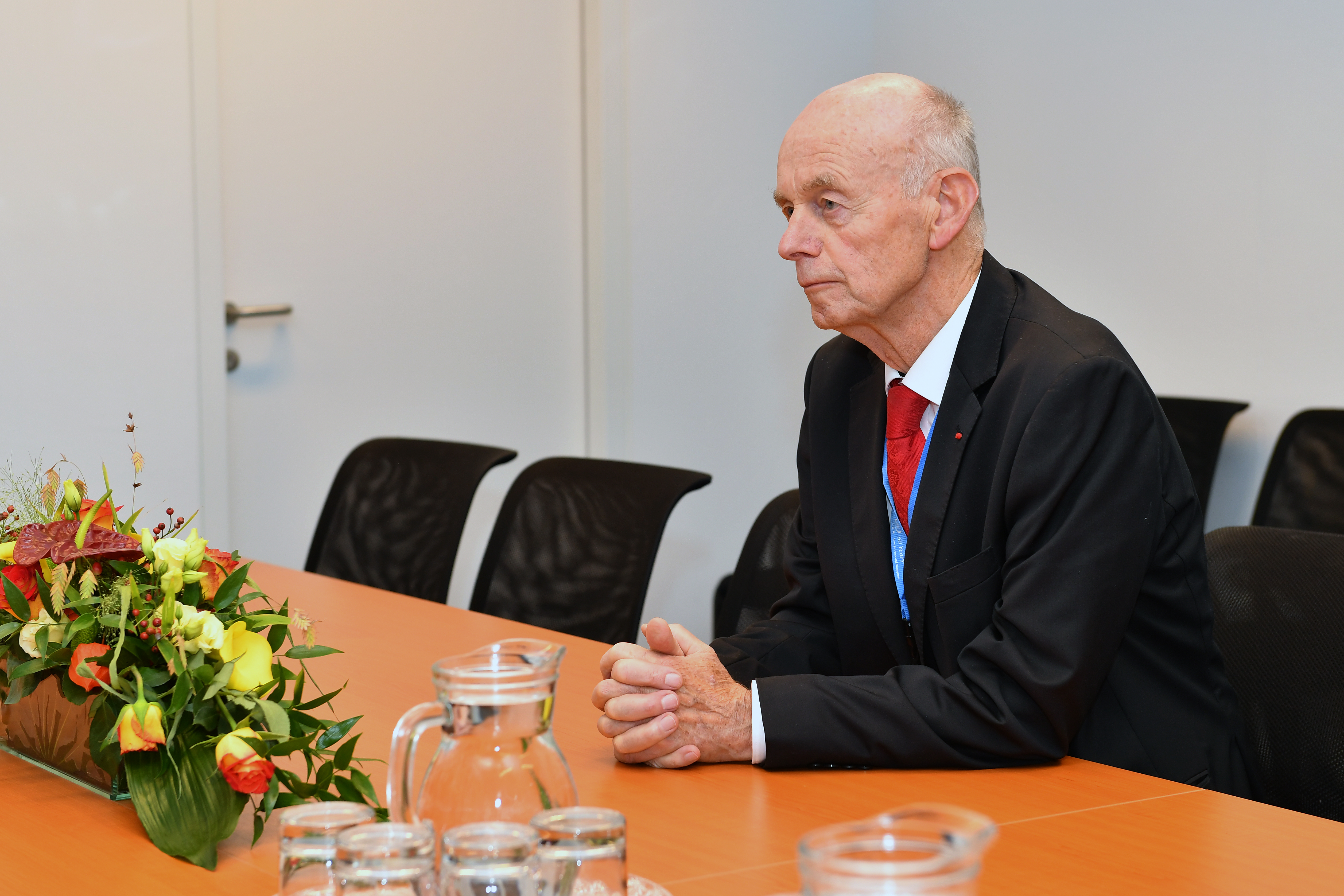 Bilateral meeting between Dr. Detlev Ganten, President World Health Summit, and IAEA Director General Yukiya Amano at the IAEA 61st General Conference. IAEA, Vienna, Austria. 19 September 2017. Photo Credit: Dean Calma / IAEA